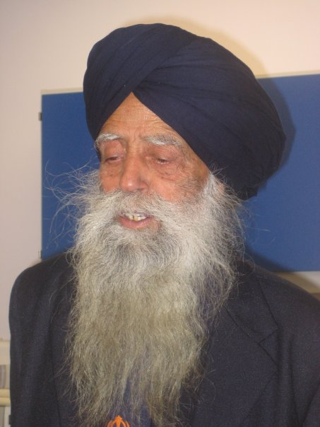 Fauja Singh giving a talk in 2007 at a college.